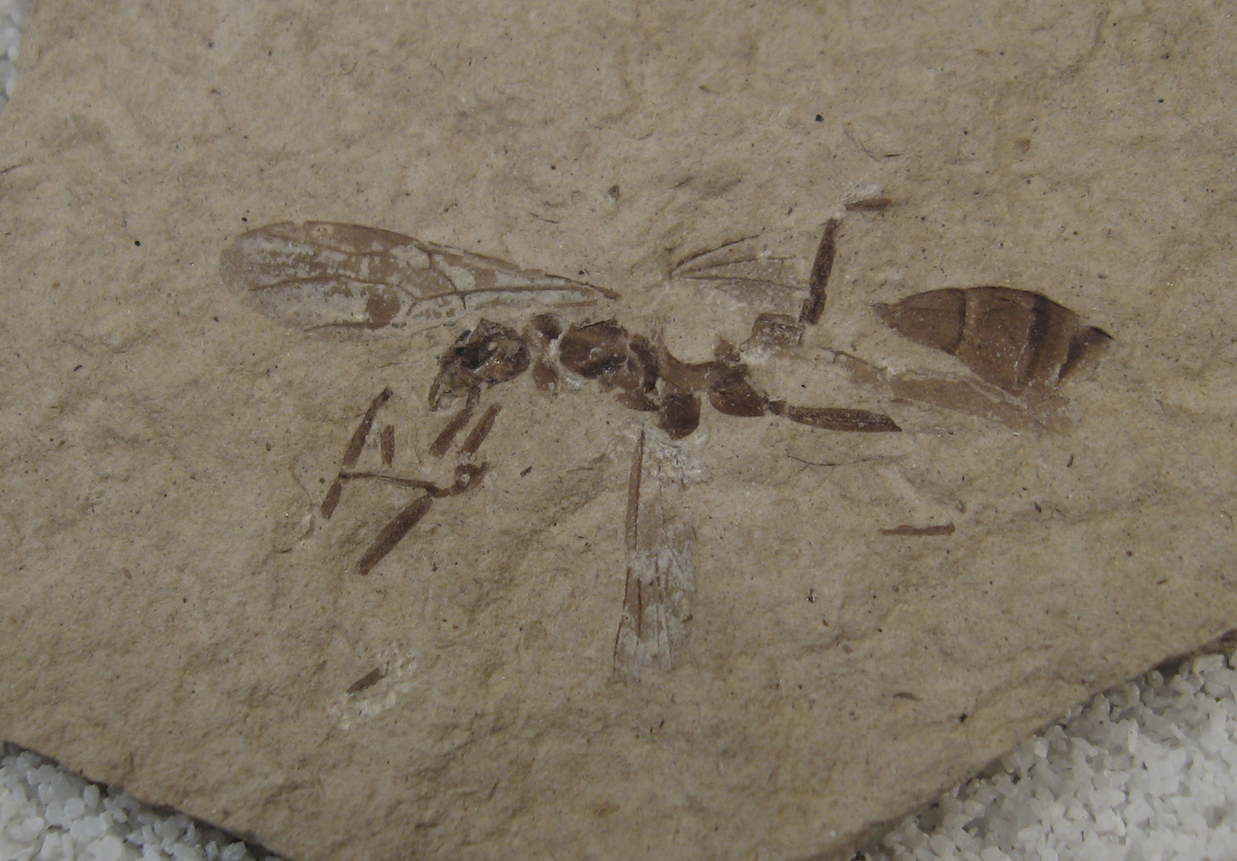 View of the Propalosoma gutierrezae holotype queen. Ypresian, Latest Early Eocene; Tom Thumb Tuff member, Klondike Mountain Formation, Republic, Washington, U.S.A. Stonerose Interpretive Center, Republic, Ferry County, Washington, U.S.A. Collection number SR 93-08-04